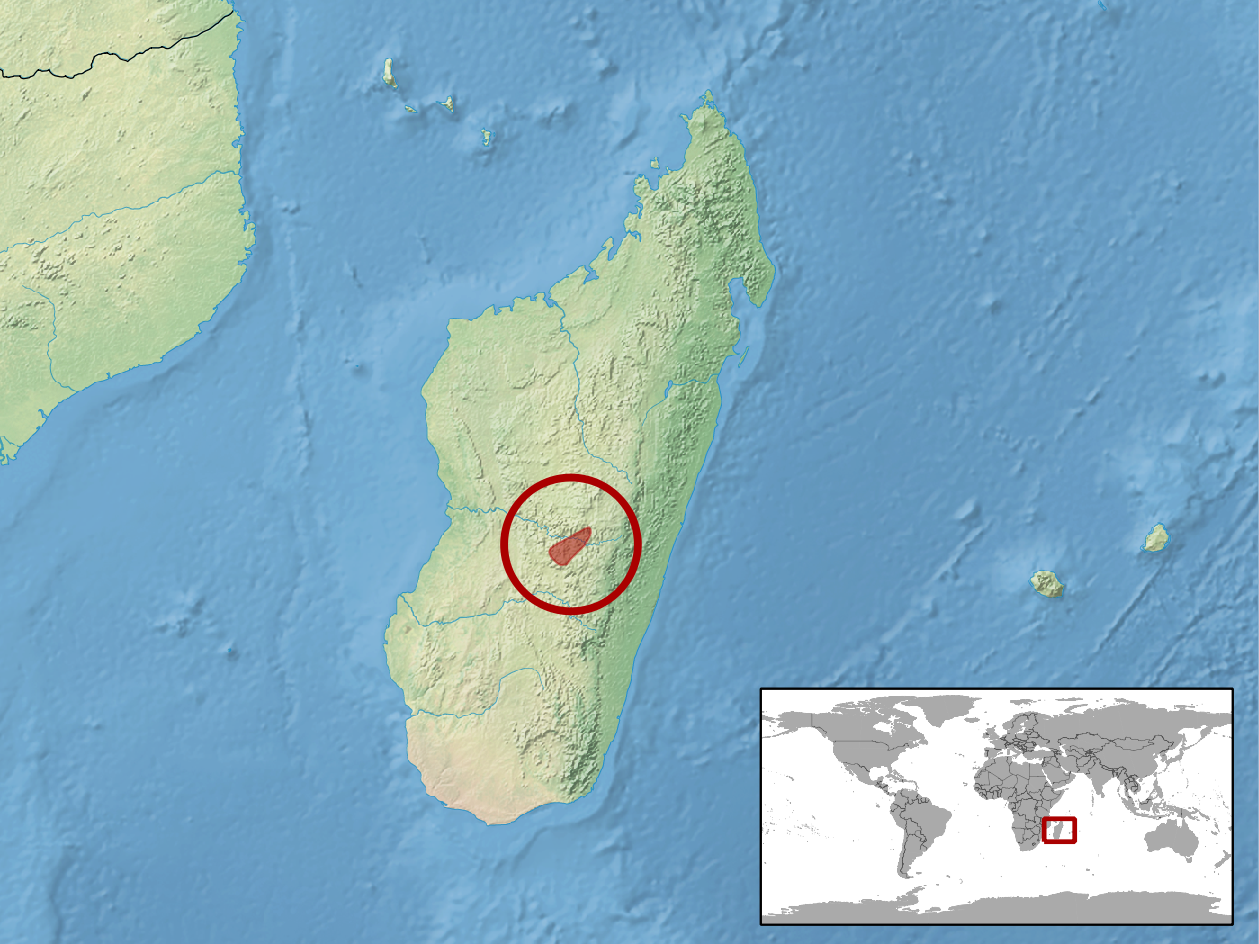 geographic distribution of Paroedura ibityensis (Native: Madagascar)